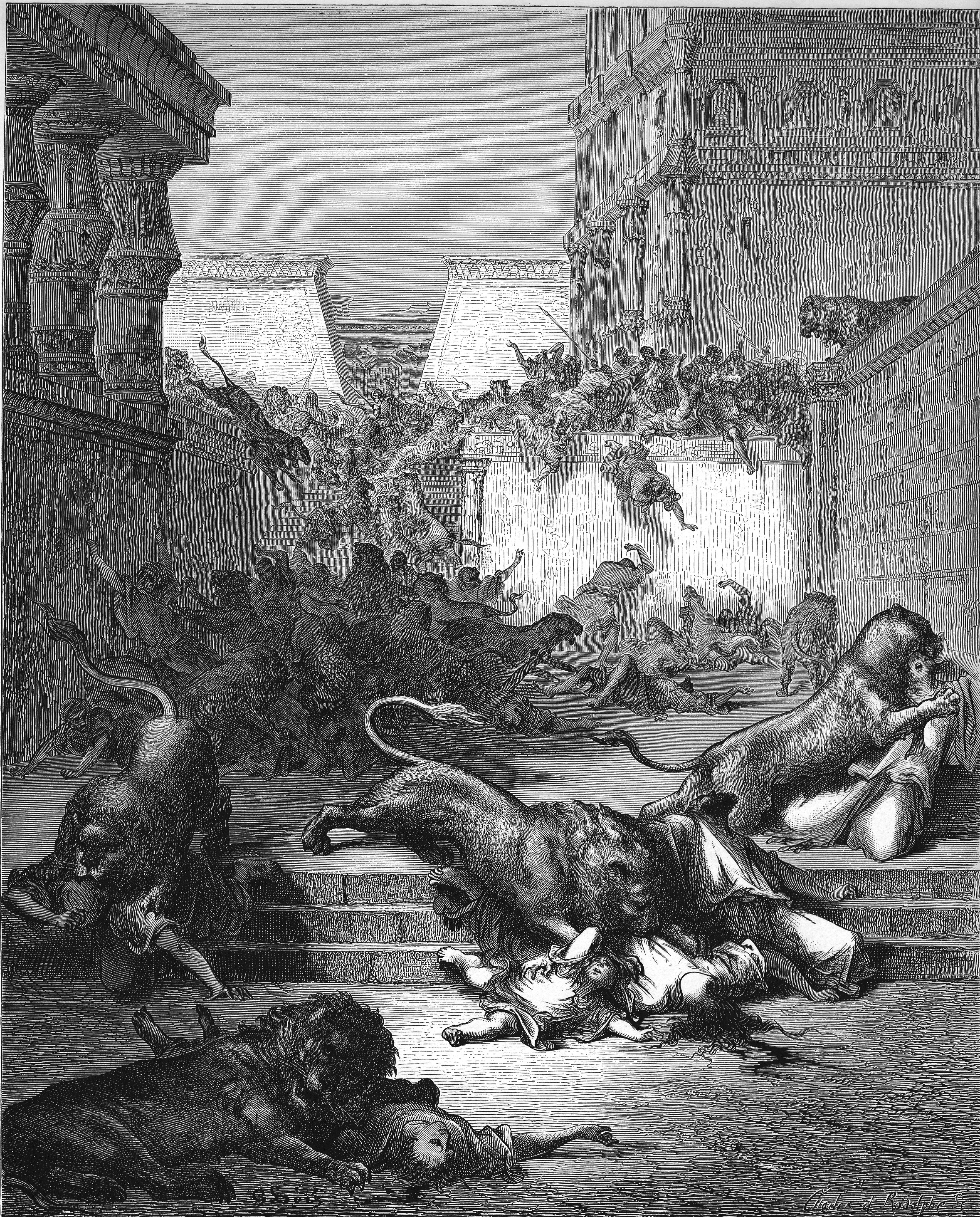 Foreign Nations Are Slain by Lions in Samaria (2 Kings 17:20-26)